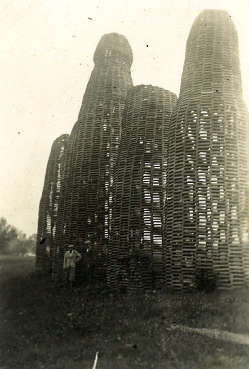 tower of staves (Upper Austria 1933)